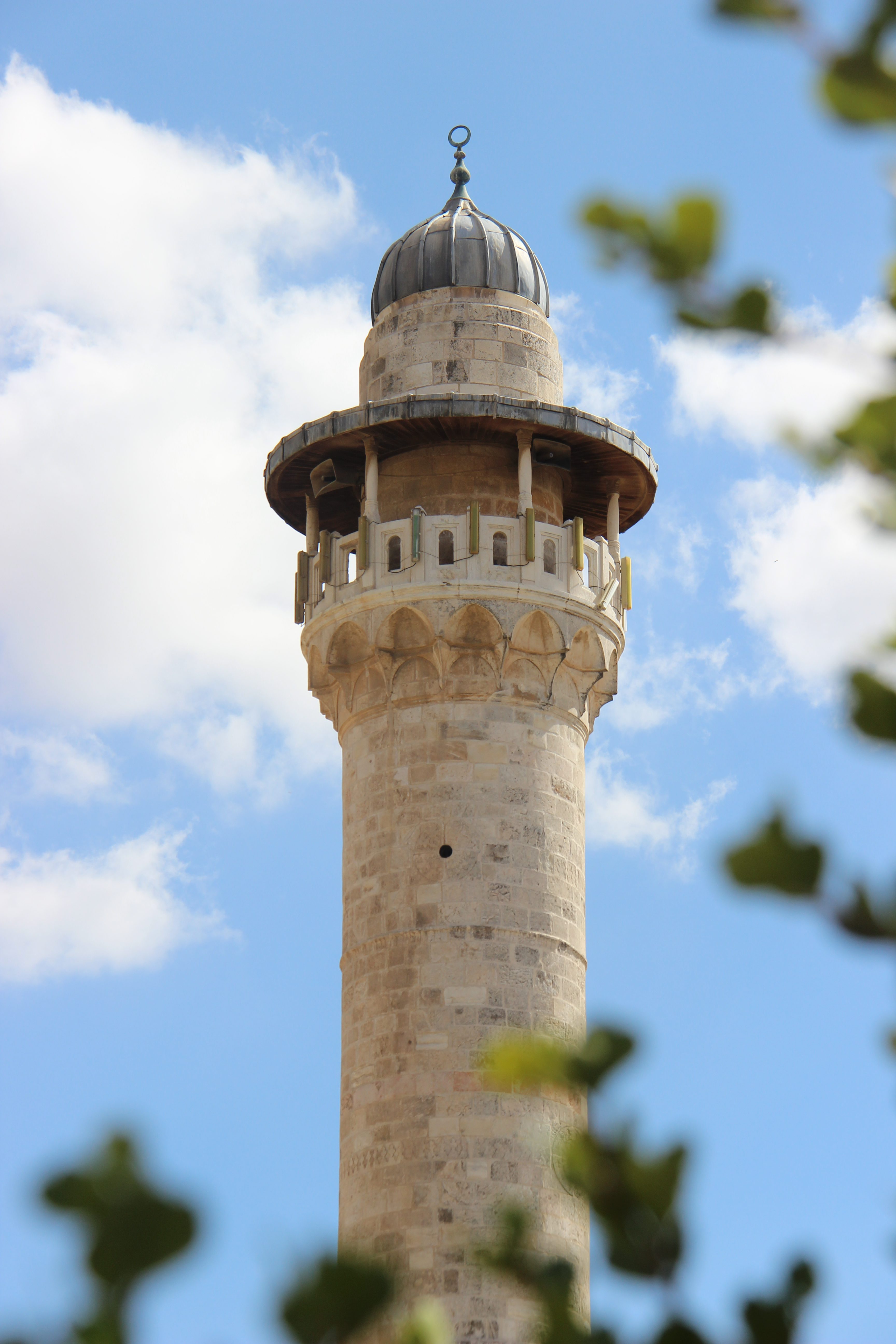 The minaret near the Lions Gate